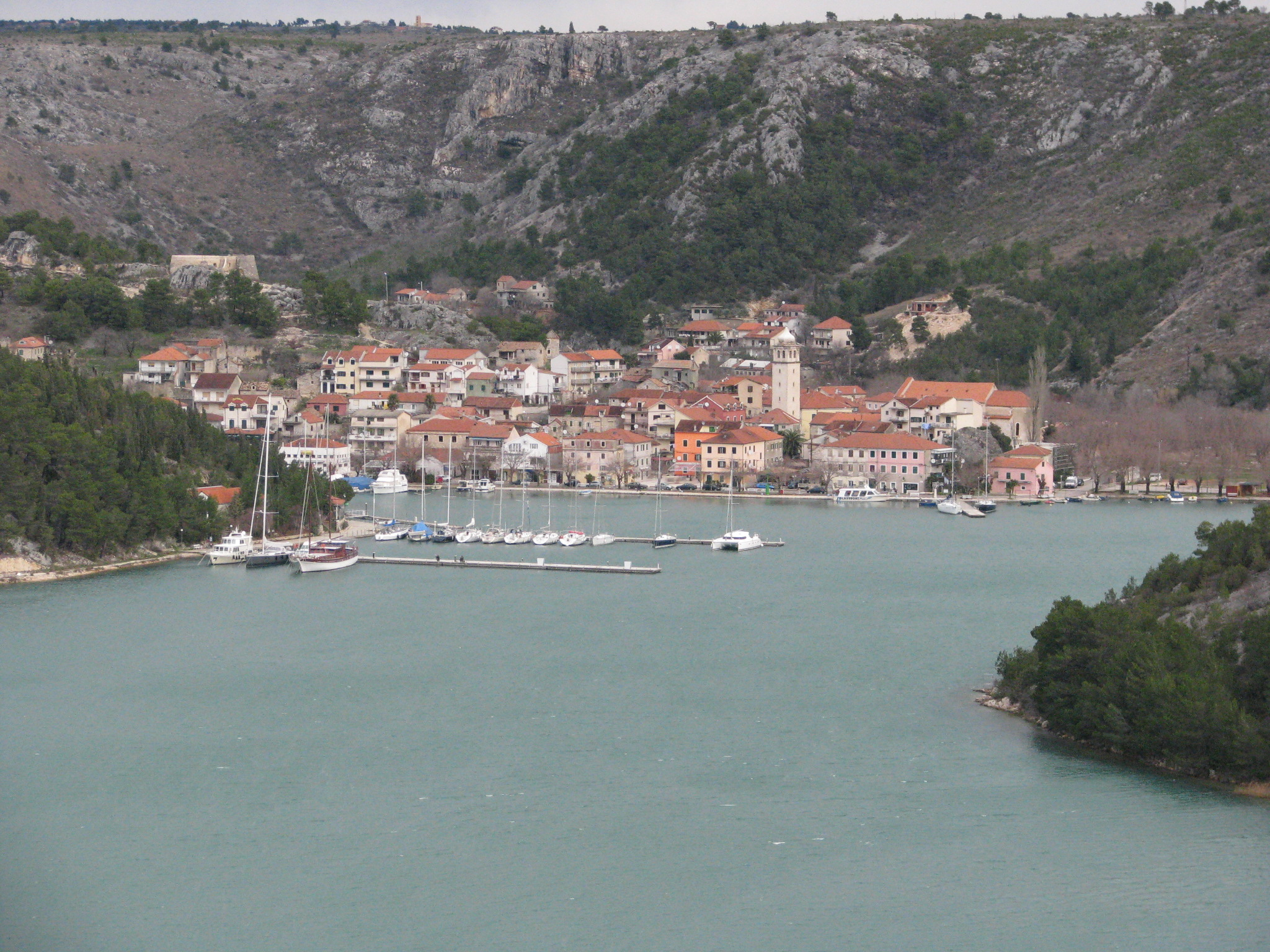 Skradin